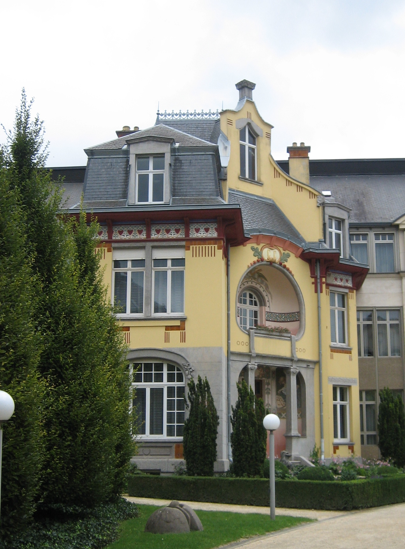 Villa Clivio in Gare Quarter (rue Goethe 17) in Luxembourg City; architect: Mathias Martin. Classified since 13 January 1989 as National monument on list of cultural heritage monuments.